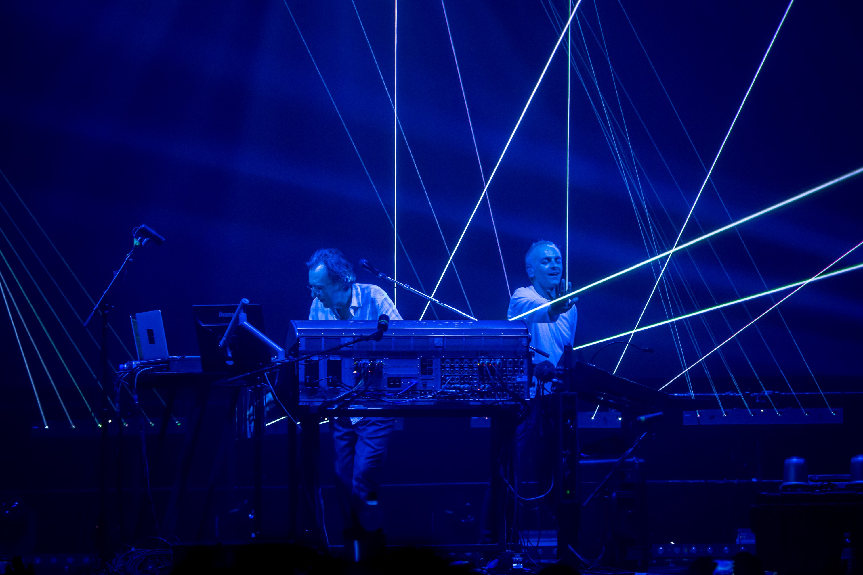 Underworld, Live at Alexandra Palace, London (March 2017)